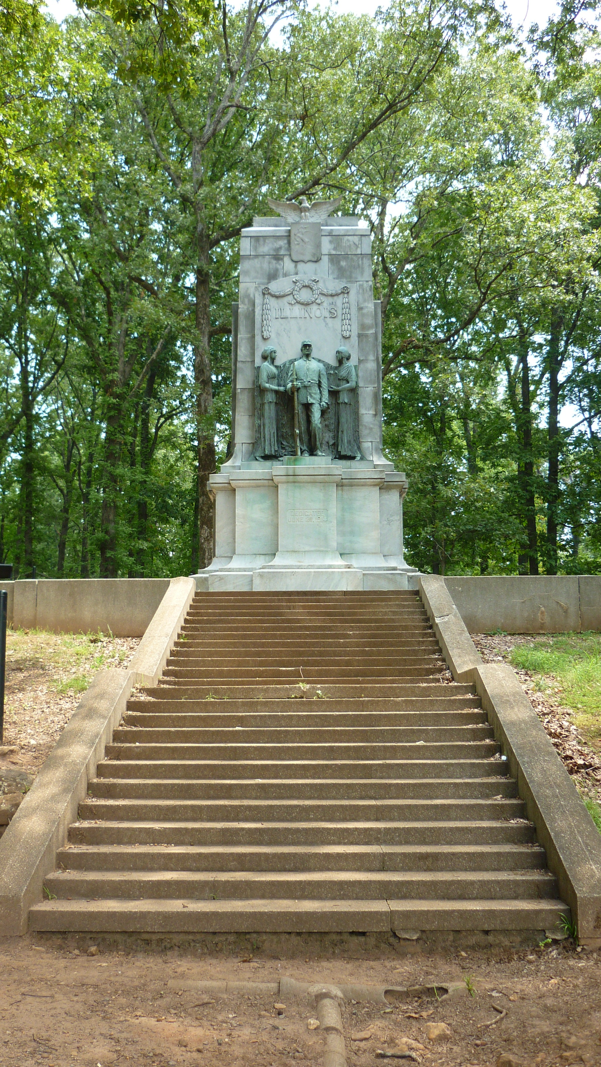 Monument to Illinois Soldiers at Cheatham Hill (The Dead Angle), Kennesaw Mountain National Battlefield Park